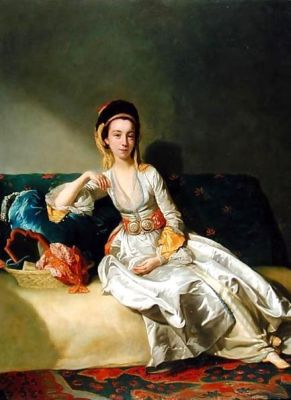 Anne (parsons) Lady Maynard by George Willison guess 1750